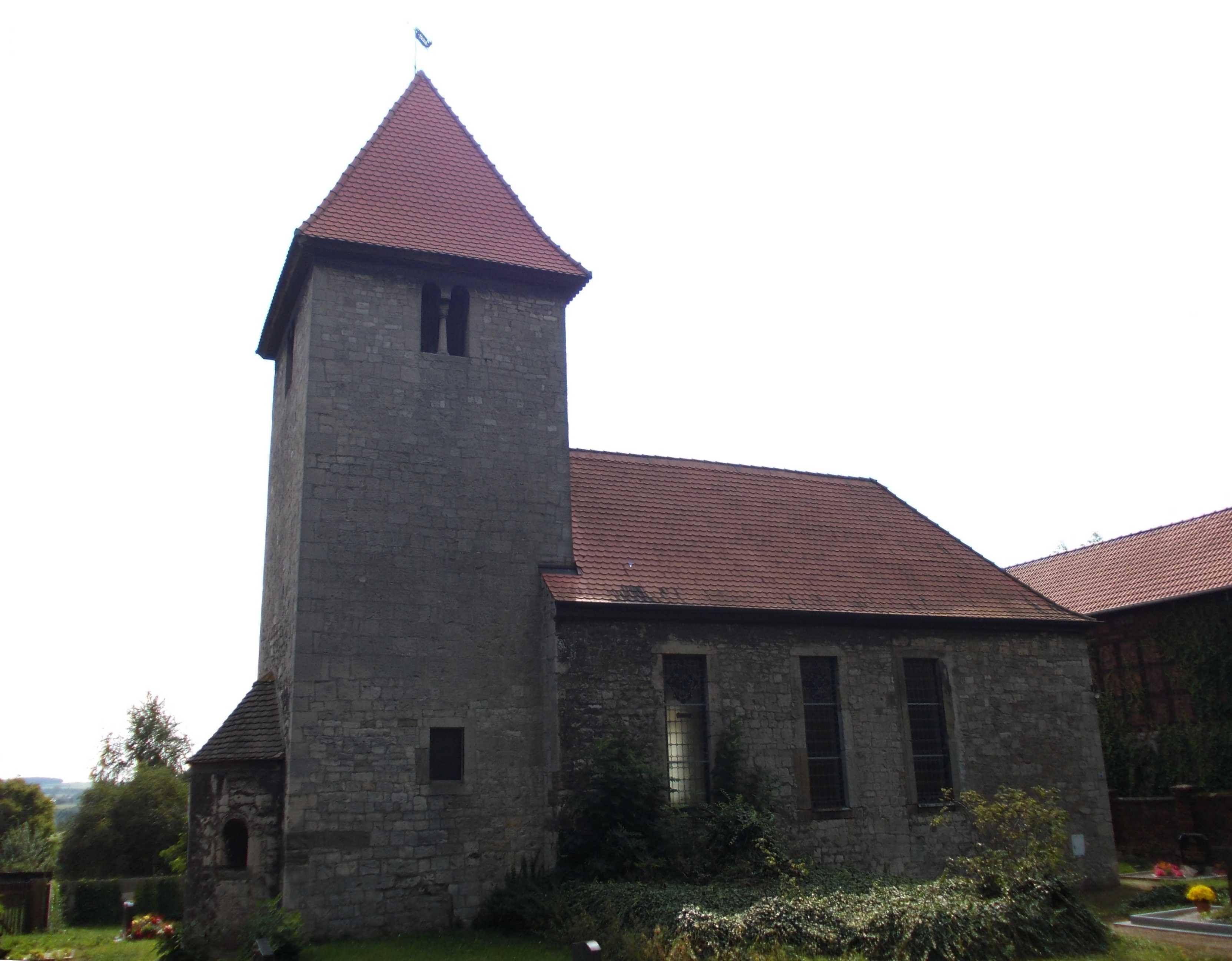 Leislau church (Molauer Land, district of Burgenlandkreis, Saxony-Anhalt)